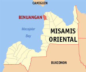 Map of the Misamis Oriental showing the location of Binuangan